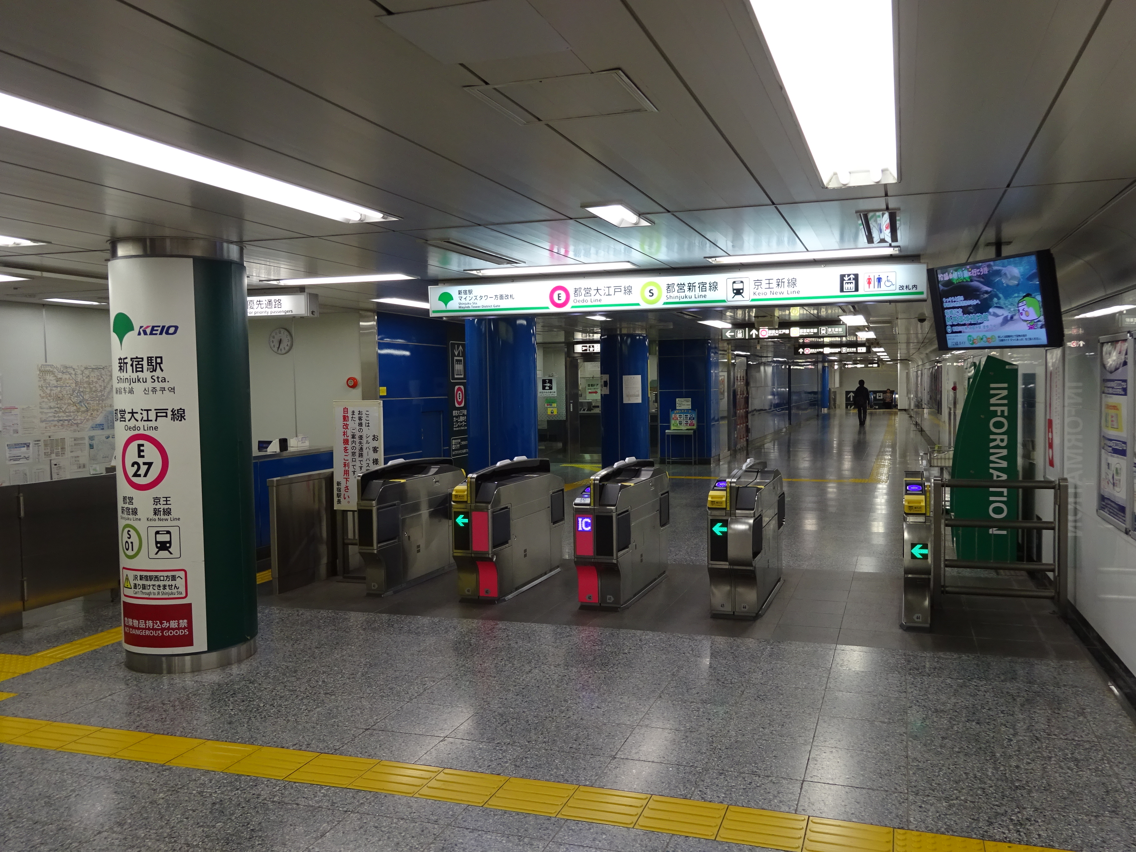 Ticket barriers of Shinjuku Station(Mayndstower district gate, Toei Oedo Line)